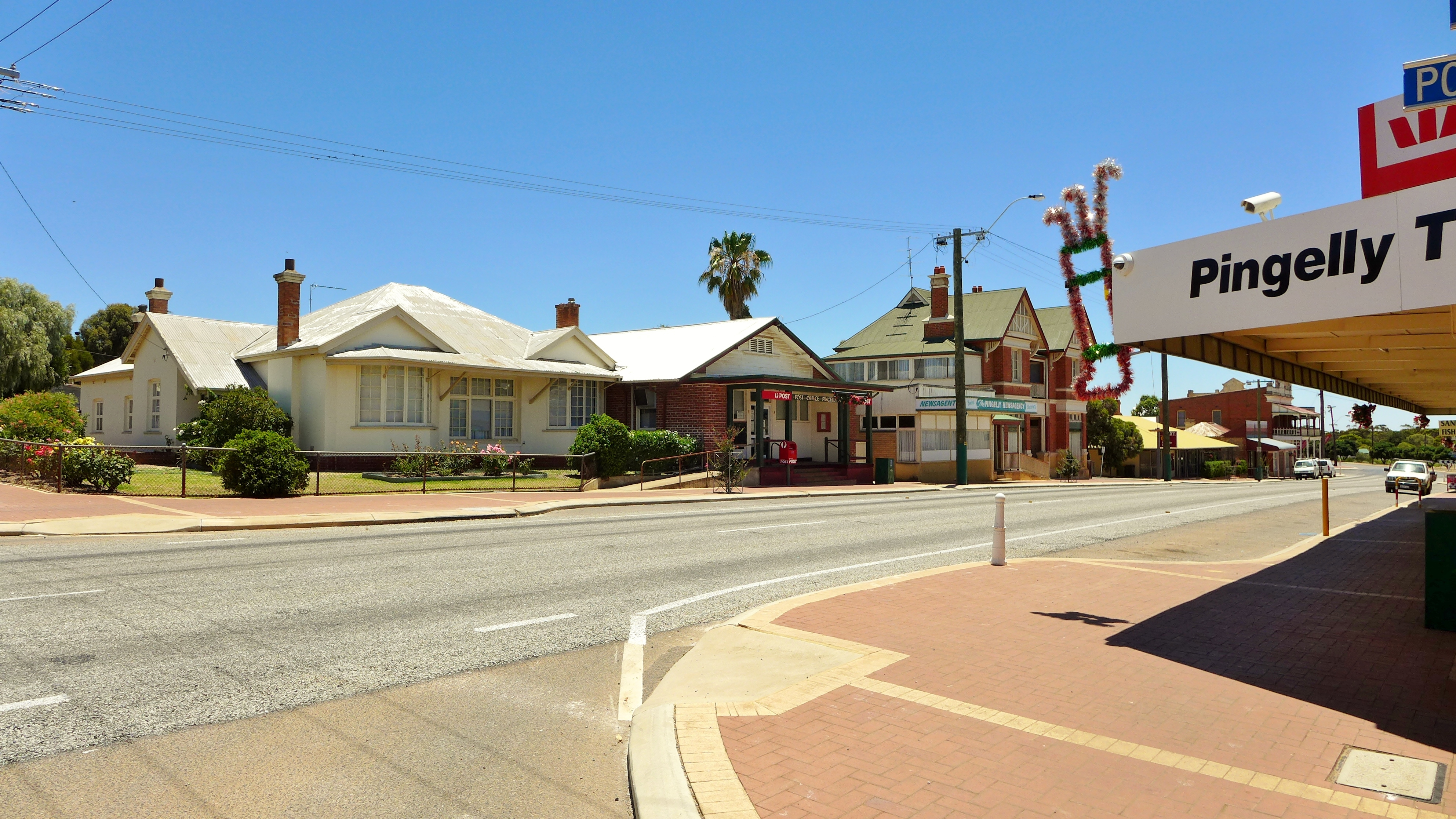 View of Great Southern Highway in Pingelly, Western Australia. The buildings in the picture include the Post Office, the newsagency and the IGA store.